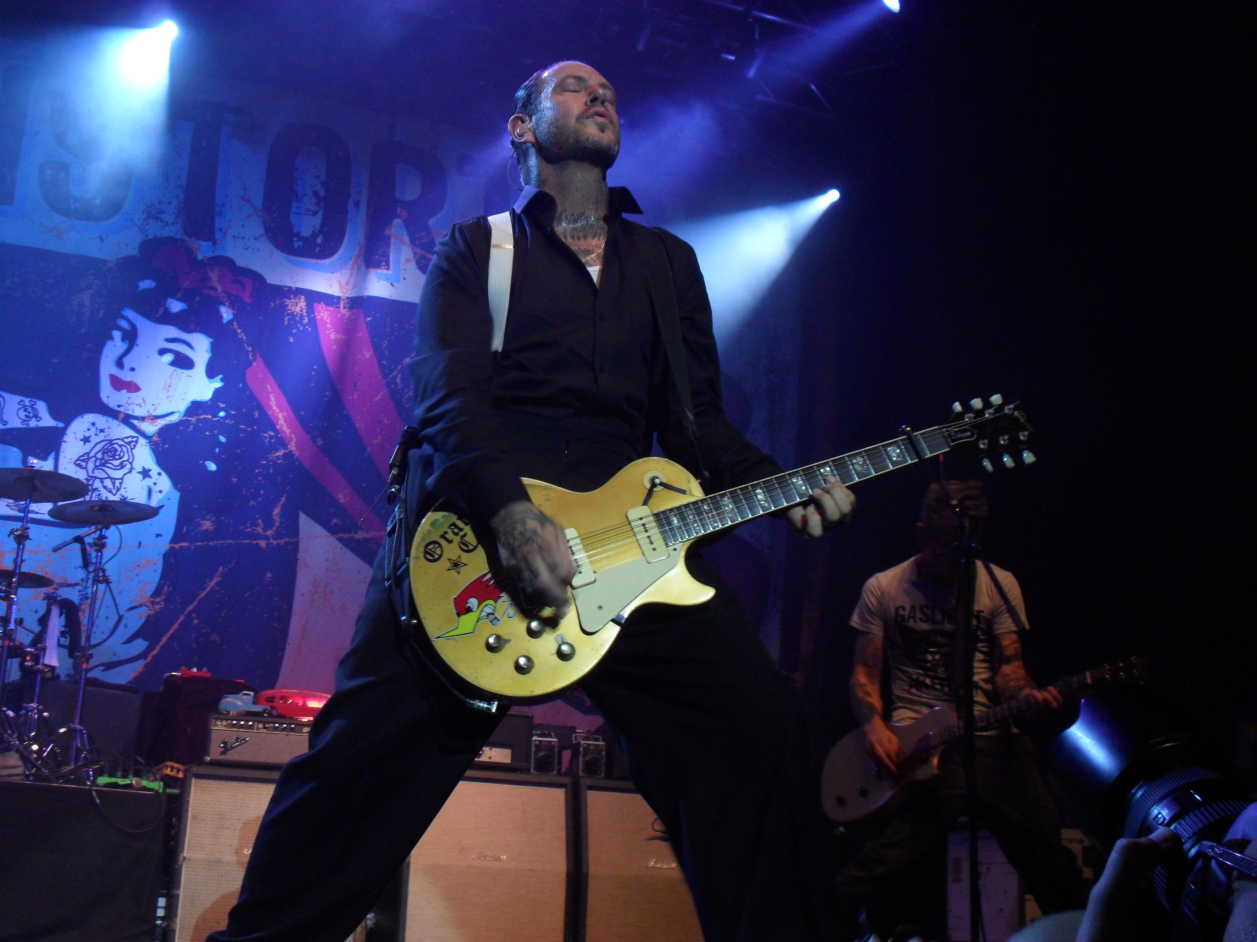 Mike Ness, frontman of Social Distortion, during a concert in Tilburg Netherlands